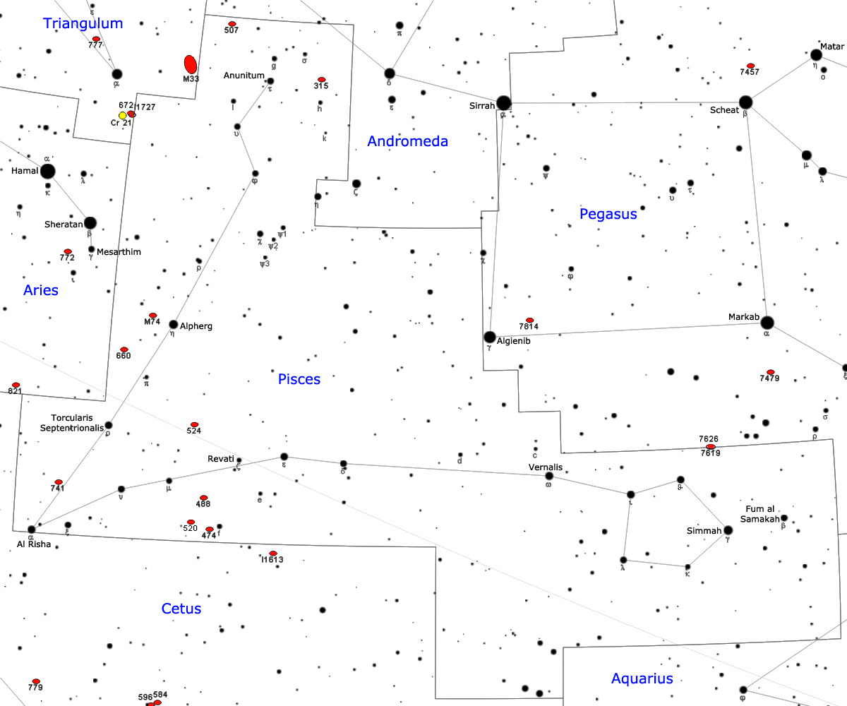 Map of Pisces